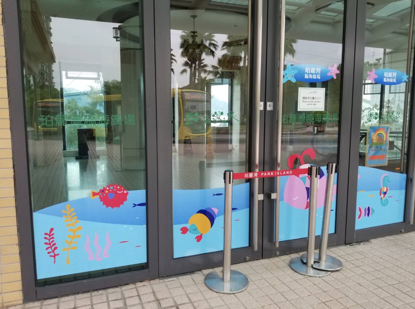 珀麗灣臨海廣場平台入口